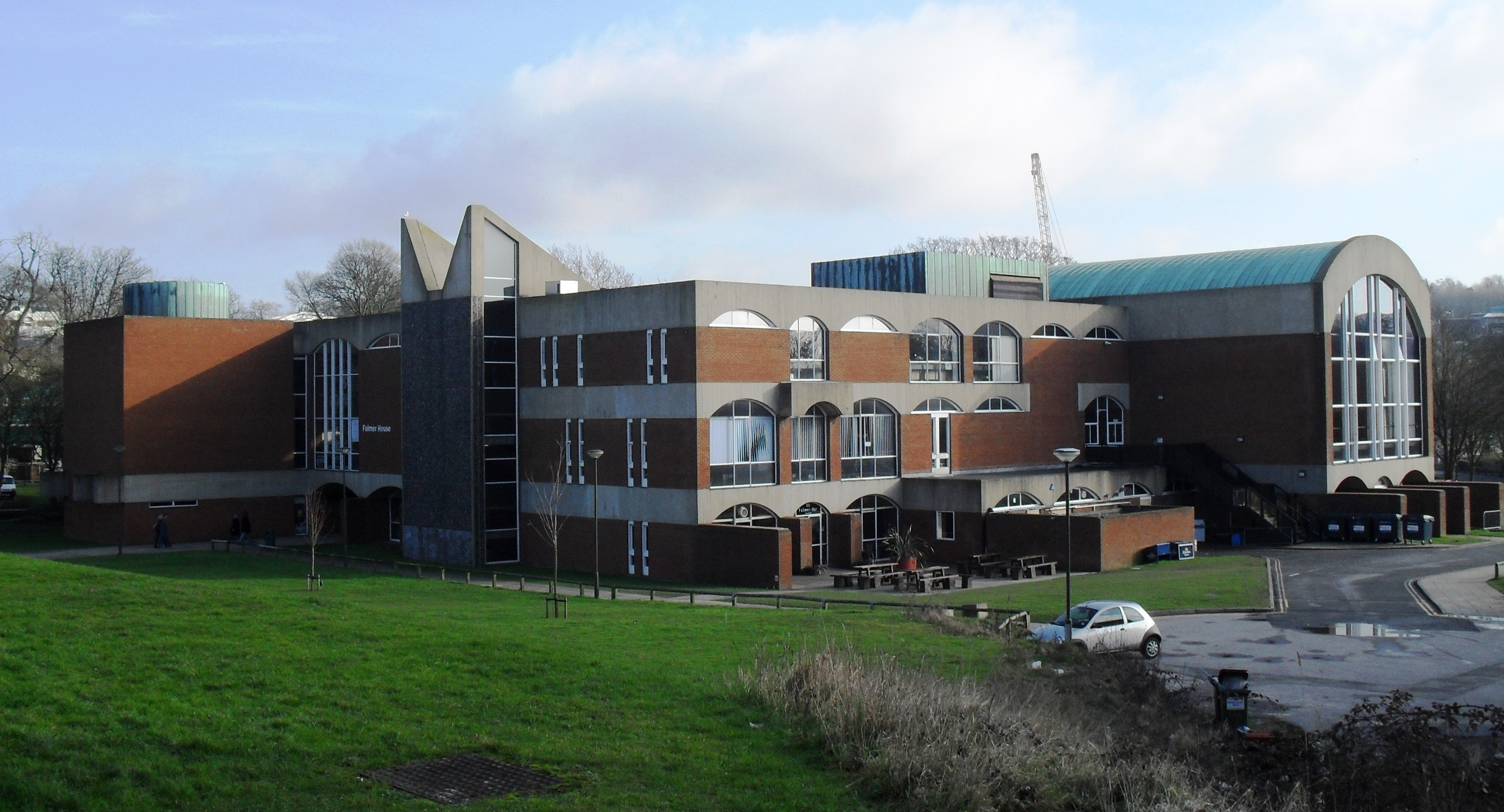 Falmer House, University of Sussex, City of Brighton and Hove, England. Built in 1962 by Sir Basil Spence. Listed at Grade I by English Heritage (code 481388)